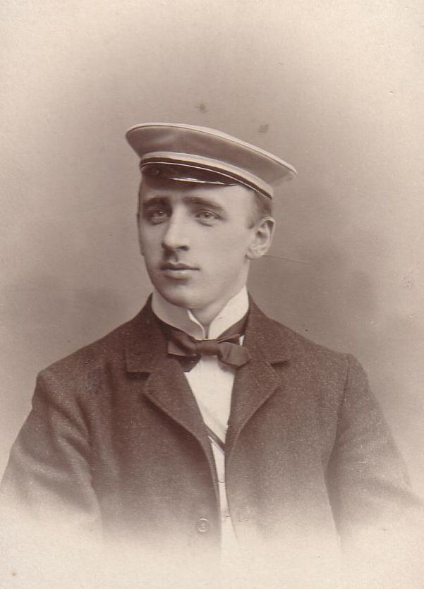 Photographic portrait of Johannes Hoßfeld as a student in Berlin